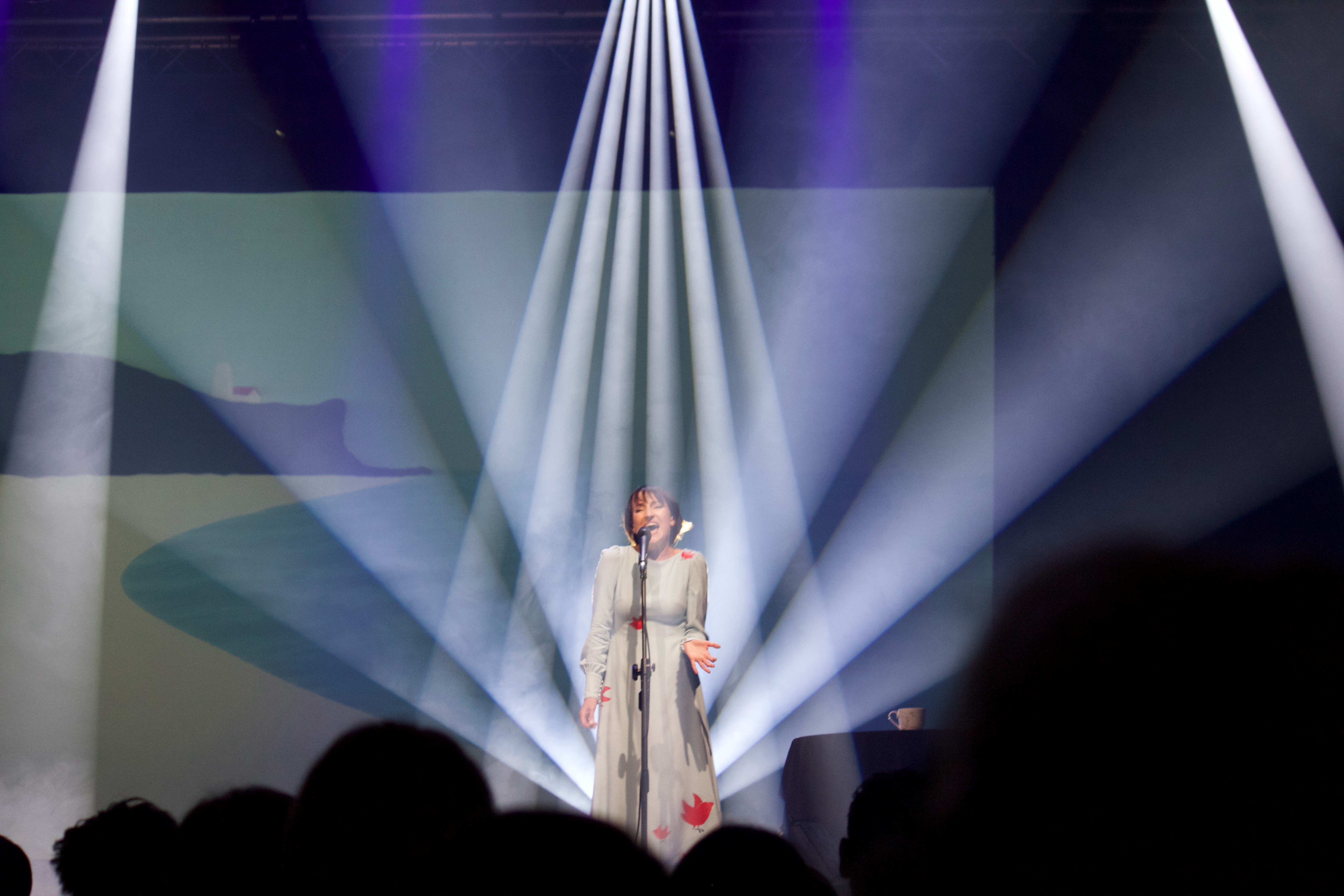 zdjęcie koncertowe Katarzyny Groniec "Ach!"